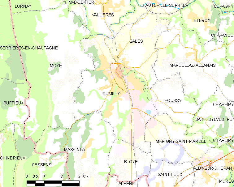 Map of French municipality Rumilly